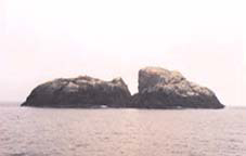 photograph of Stack Skerry, north of Scotland mainland, west of Orkney Islands